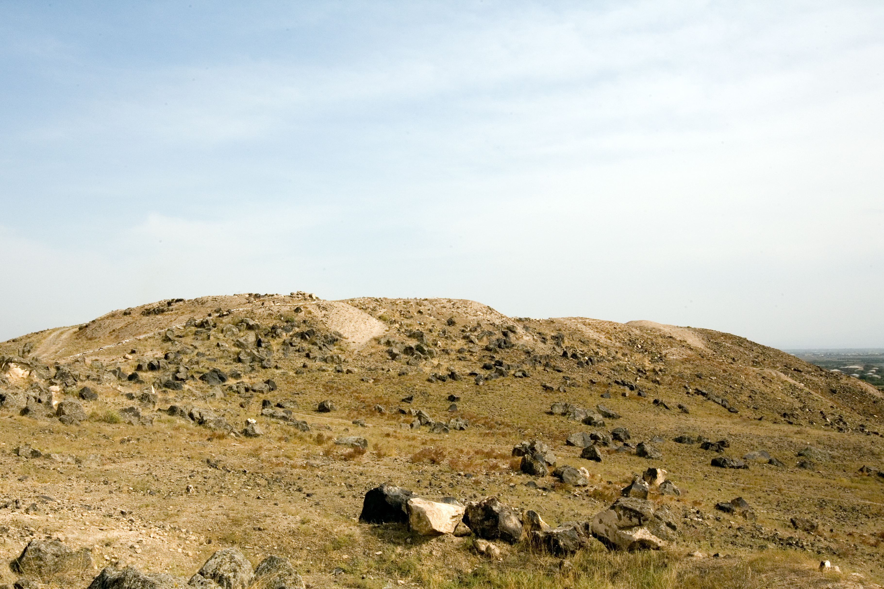 View of Argishtihinili hill